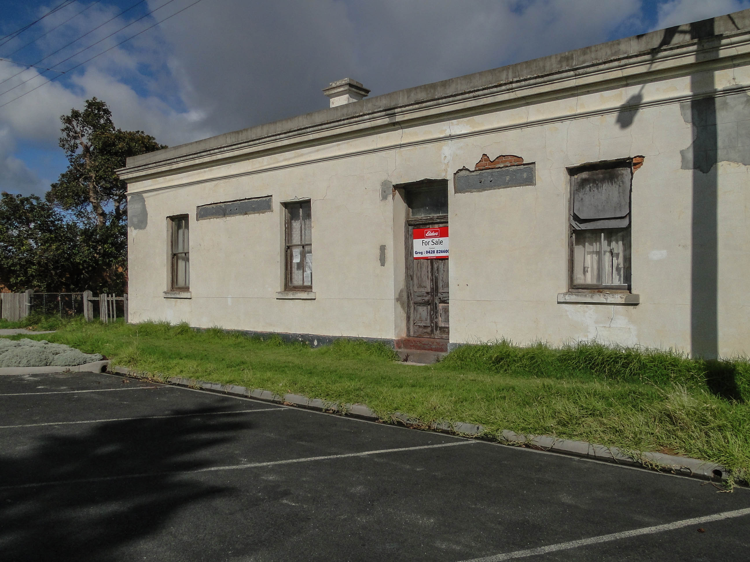 The office and residence of Turnbull, Orr and Company, in Port Albert, Victoria, Australia, built in 1844.